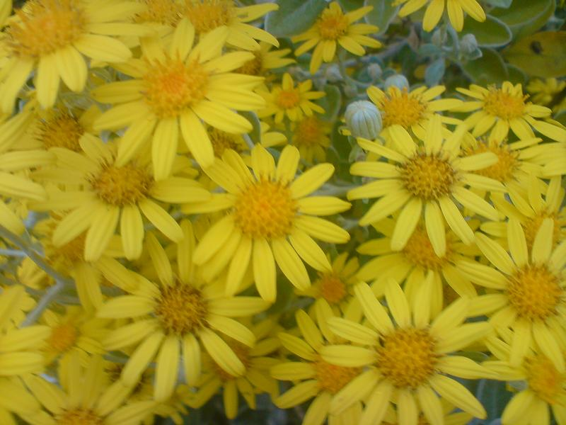 Golden Ragwort (Packera aurea syn. Senecio aureus) flowers in Kew Gardens, England.